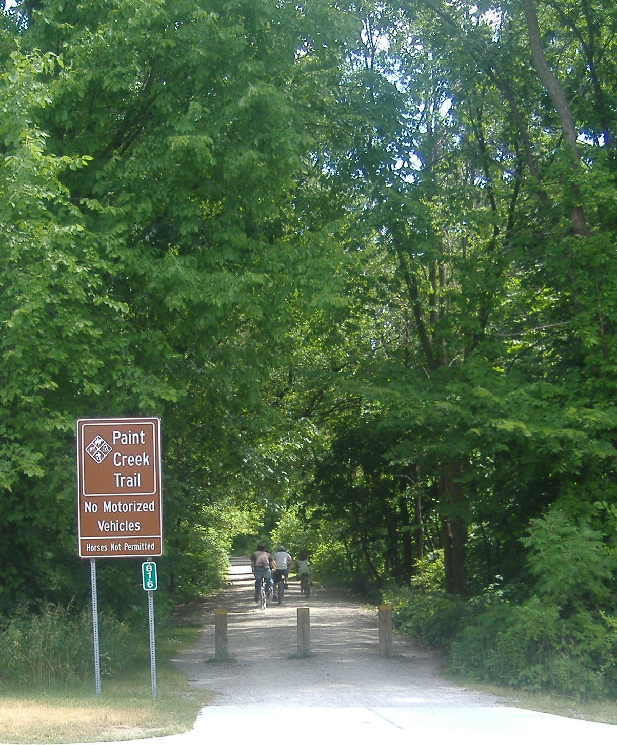 Rochester, Michigan. The Paint Creek Trail is a 8.5 mile "Rails-to-Trails" pathway that connects the cities of Rochester and Lake Orion, Michigan. The photo was taken at the trail entrance on north side of Rochester Municipal Park. Photo taken June 30, 2007.